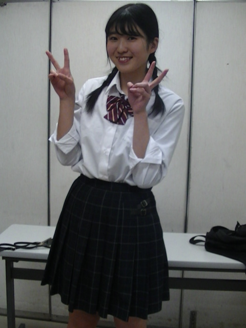 Sakurako Arimoto 2020-01-21